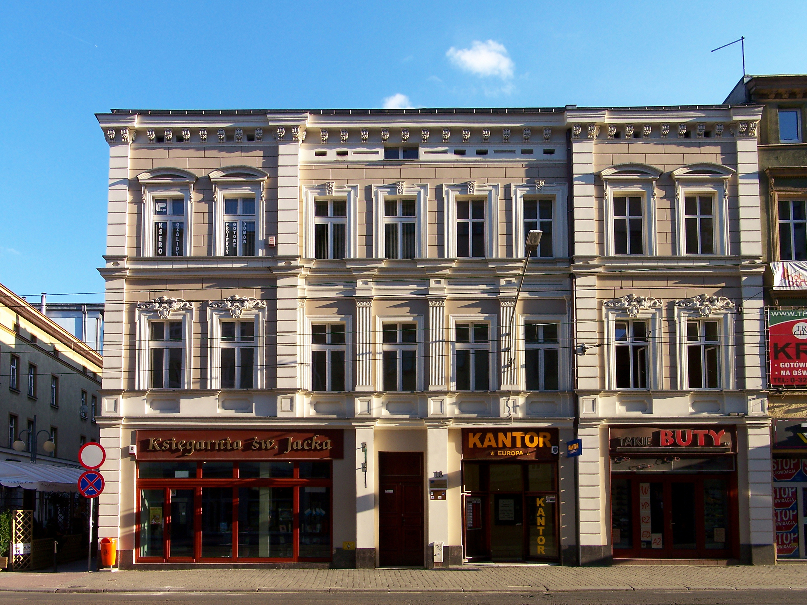 3-go Maja Street in Katowice.